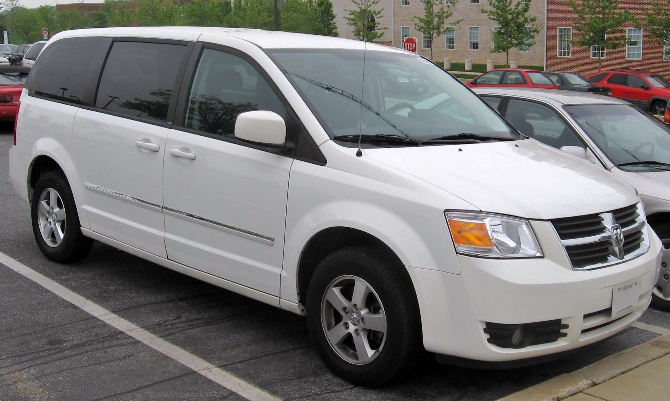 2008 Dodge Grand Caravan photographed in College Park, Maryland, USA.